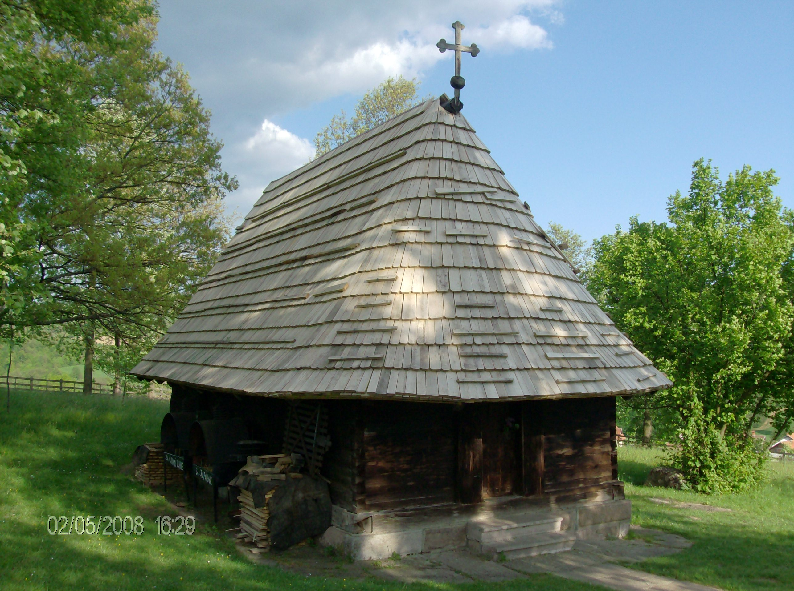 Orthodox church in Takovo